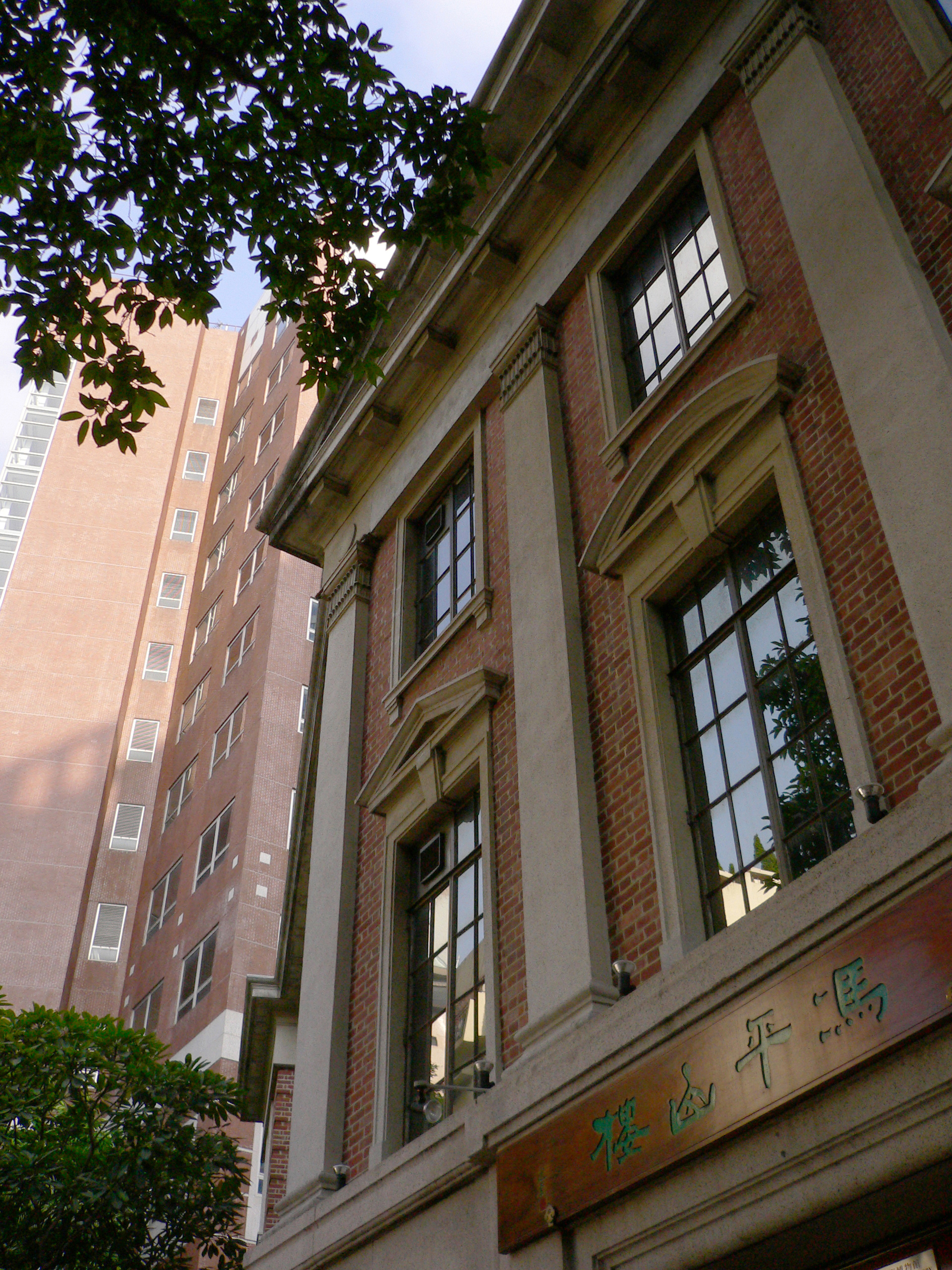 Exterior of Fung Ping Shan Building